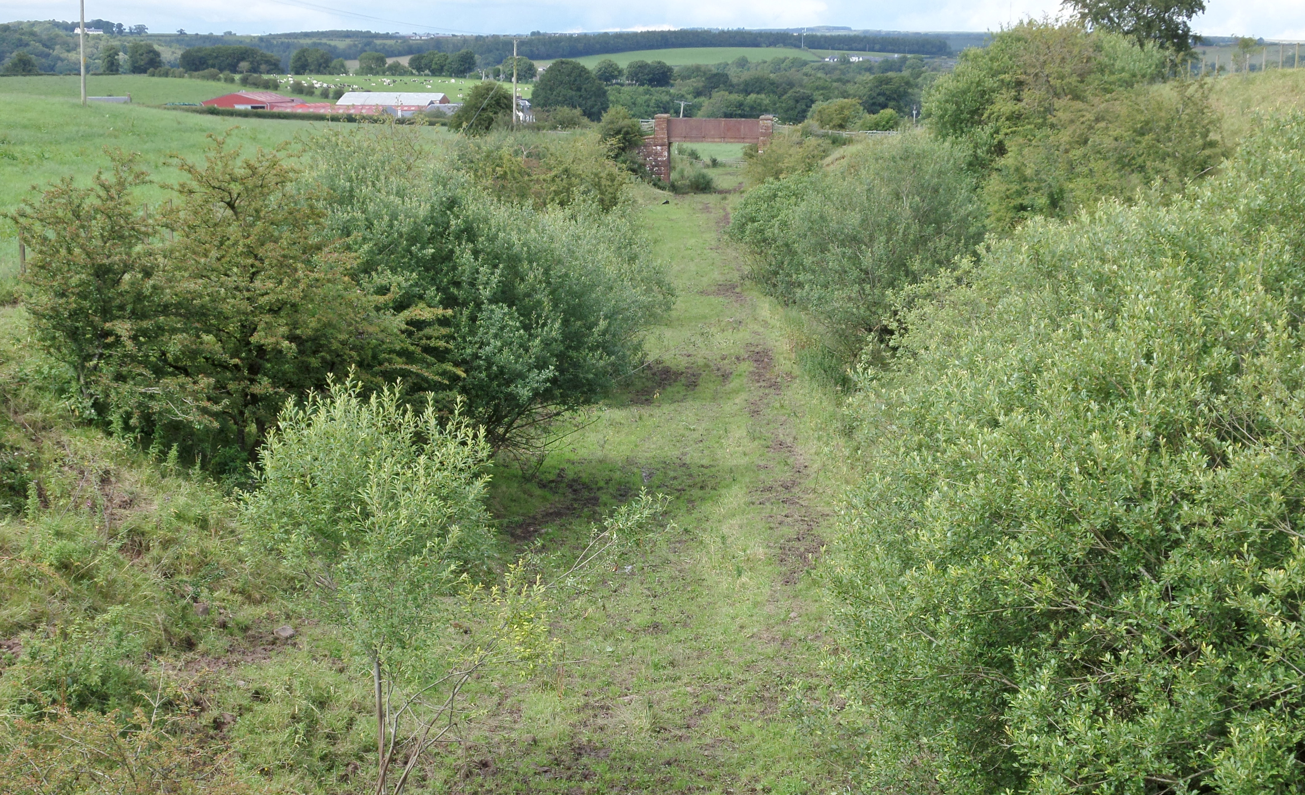 Trackbed of the old Catrine branchline, near Catrine House, East Ayrshire, Scotland.